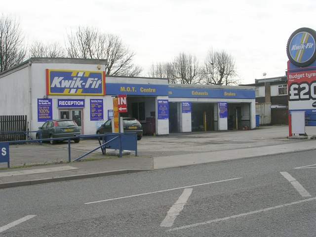 Kwik Fit - Huddersfield Road